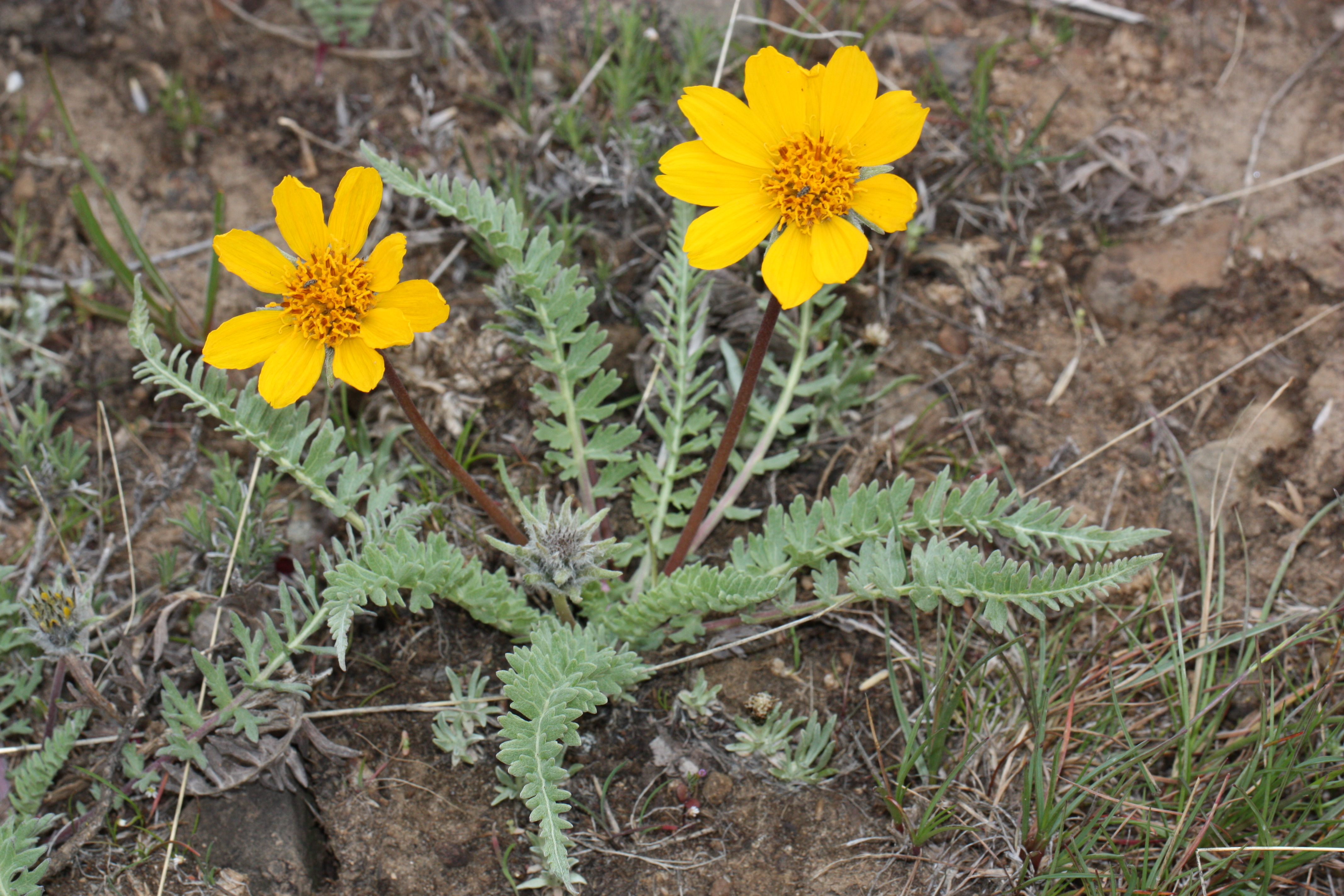 Hooker's Balsamroot, Hairy Balsamroot Viewpoint location: Snow Mountain Ranch, Cowiche Mountain Viewpoint elevation: 627 meter (2057 ft) Location source: Garmin GPSmap 60CSx Location Datum: WGS84